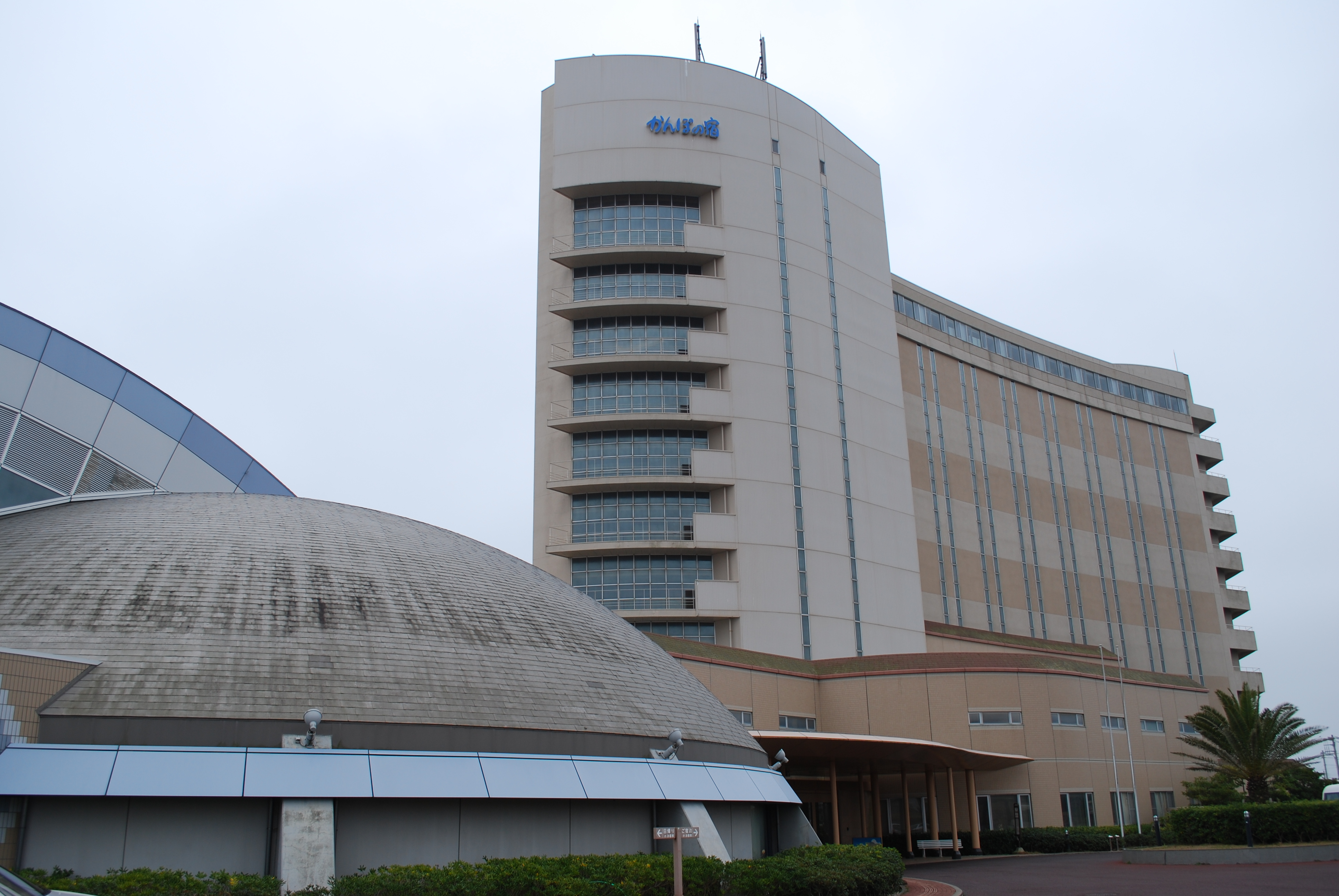 Kanpo-no-yado Asahi hotel,Asahi-city,Japan